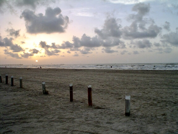 This image was taken by myself when I vacationed in Port Aransas on Mustang Island in 2005.